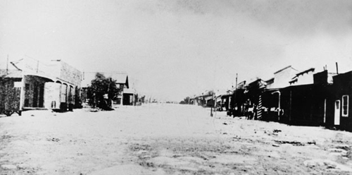 View of Silver Reef, Utah